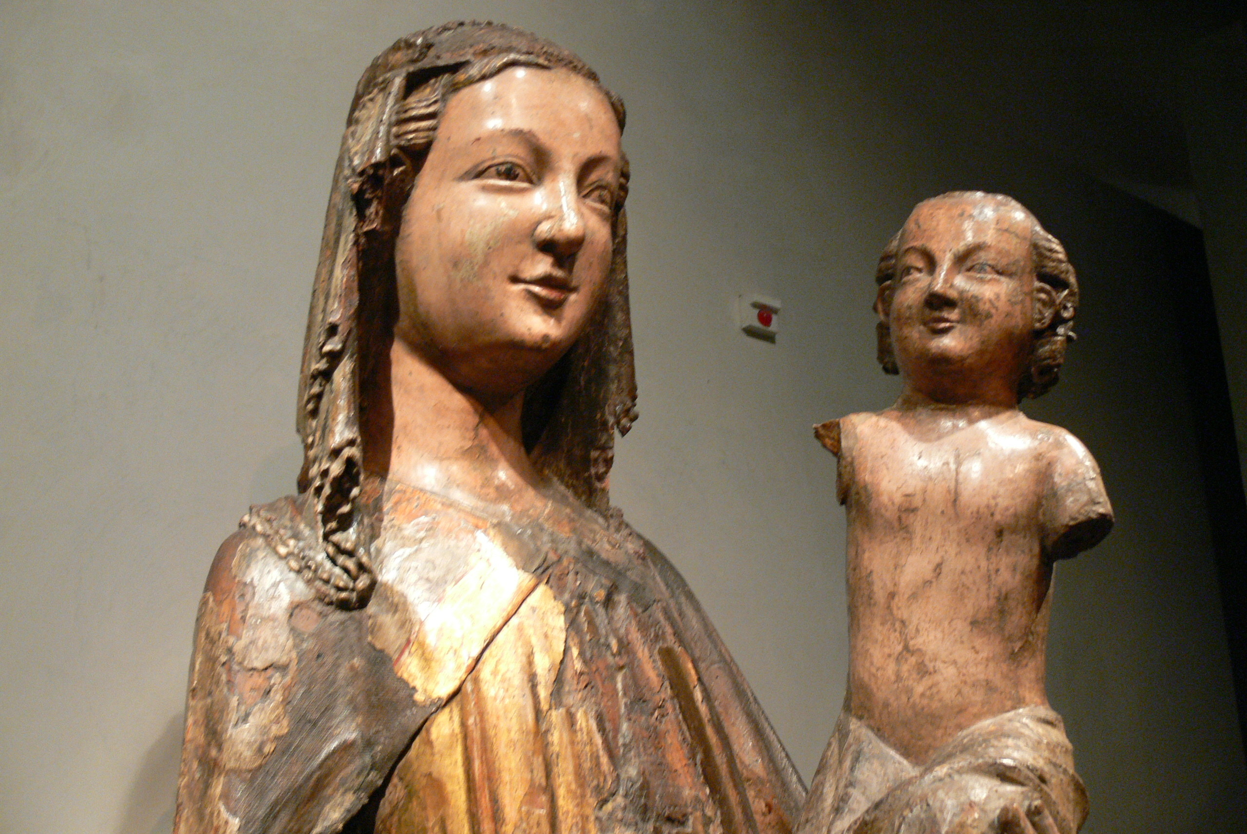 Convent of Saint Agnes of Bohemia ( Prague ). Art collection: Madonna of Rouchovany ( 1310-1330 ).